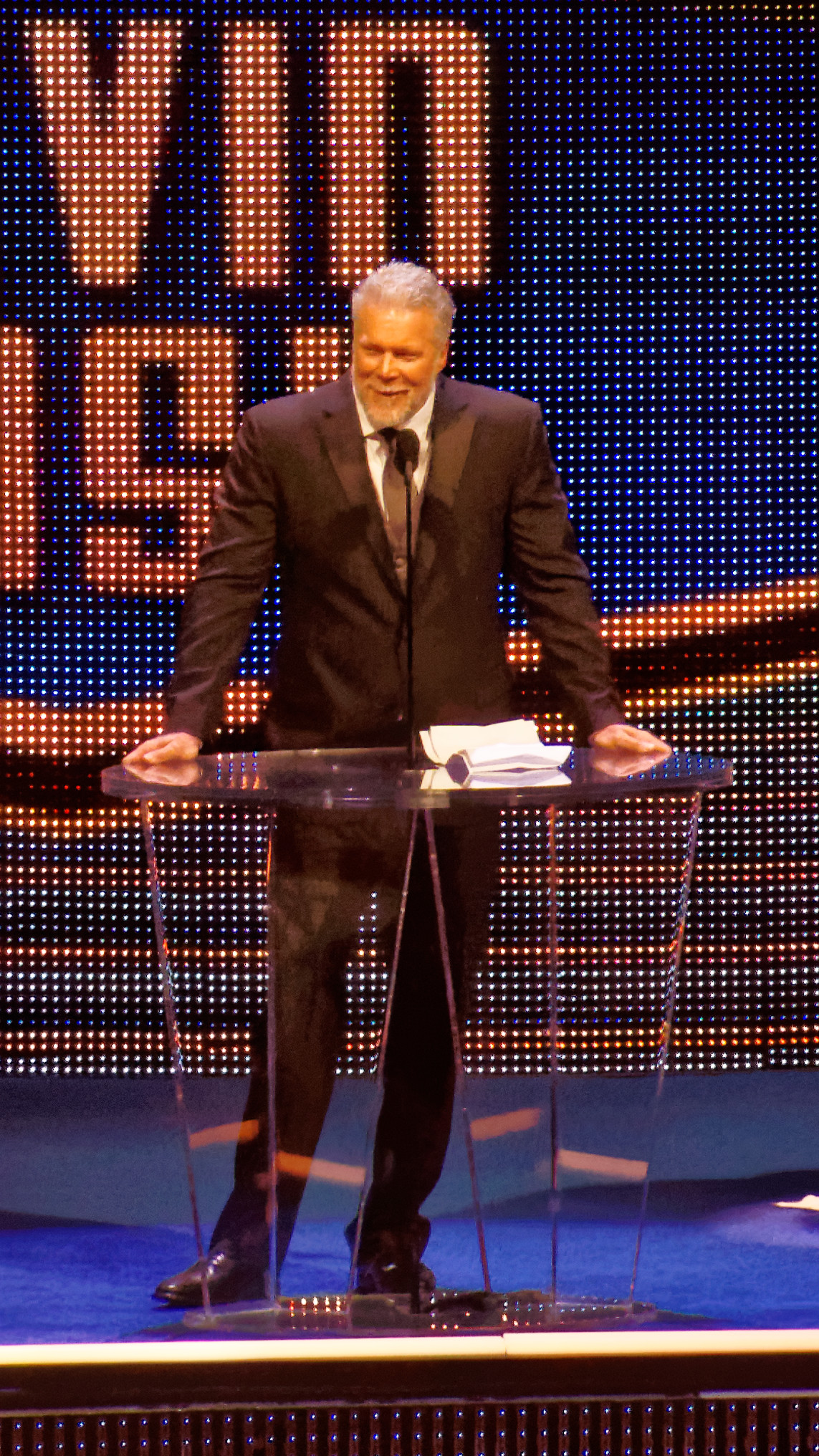 WWE Hall Of Fame 2015